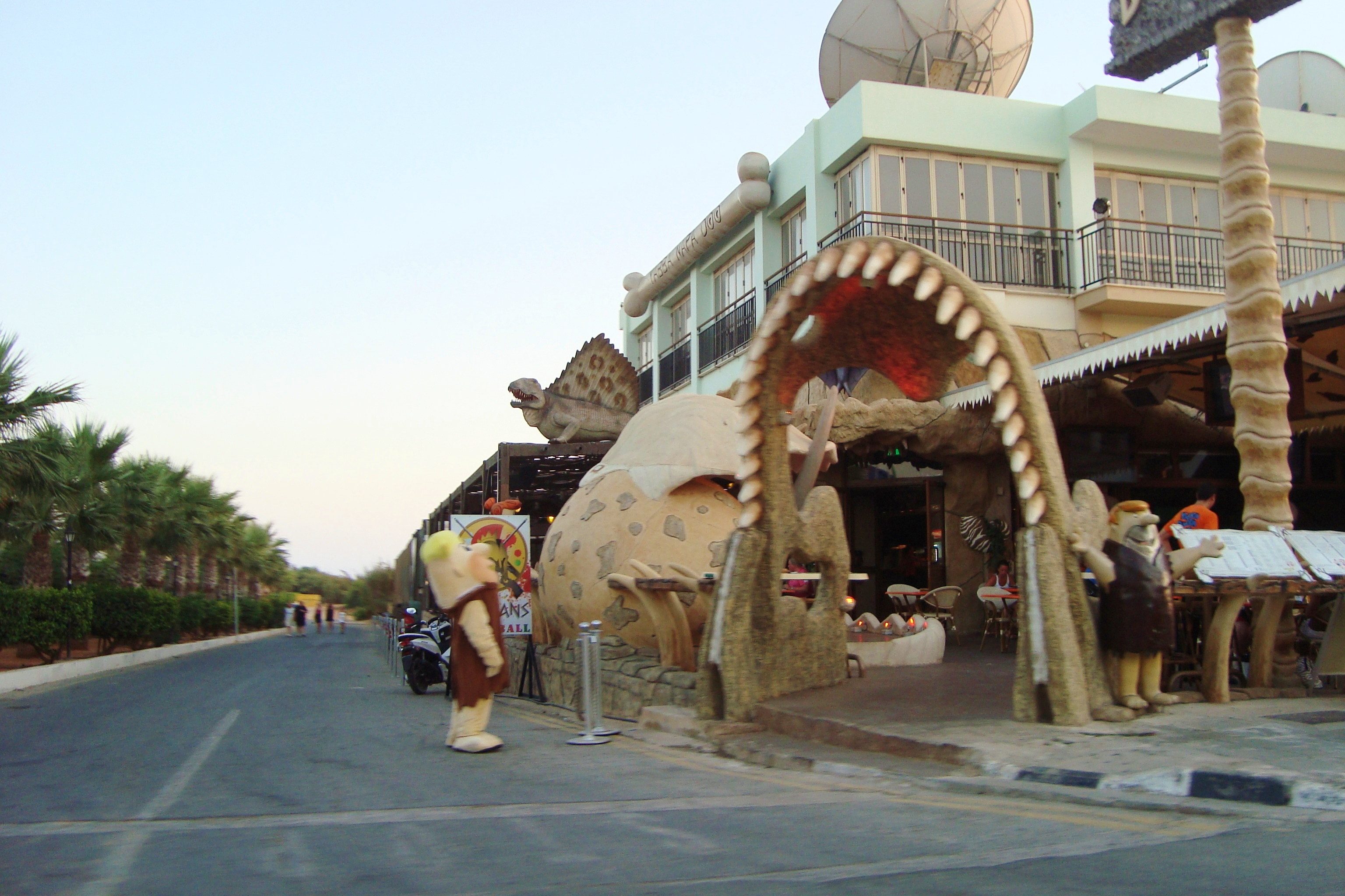 Theme The Flintstones cafeteria and bar in Agia Napa Republic of Cyprus